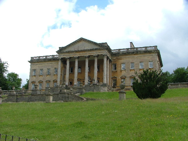 Prior Park House, Bath, Somerset, United Kingdom - home of Ralph Allen